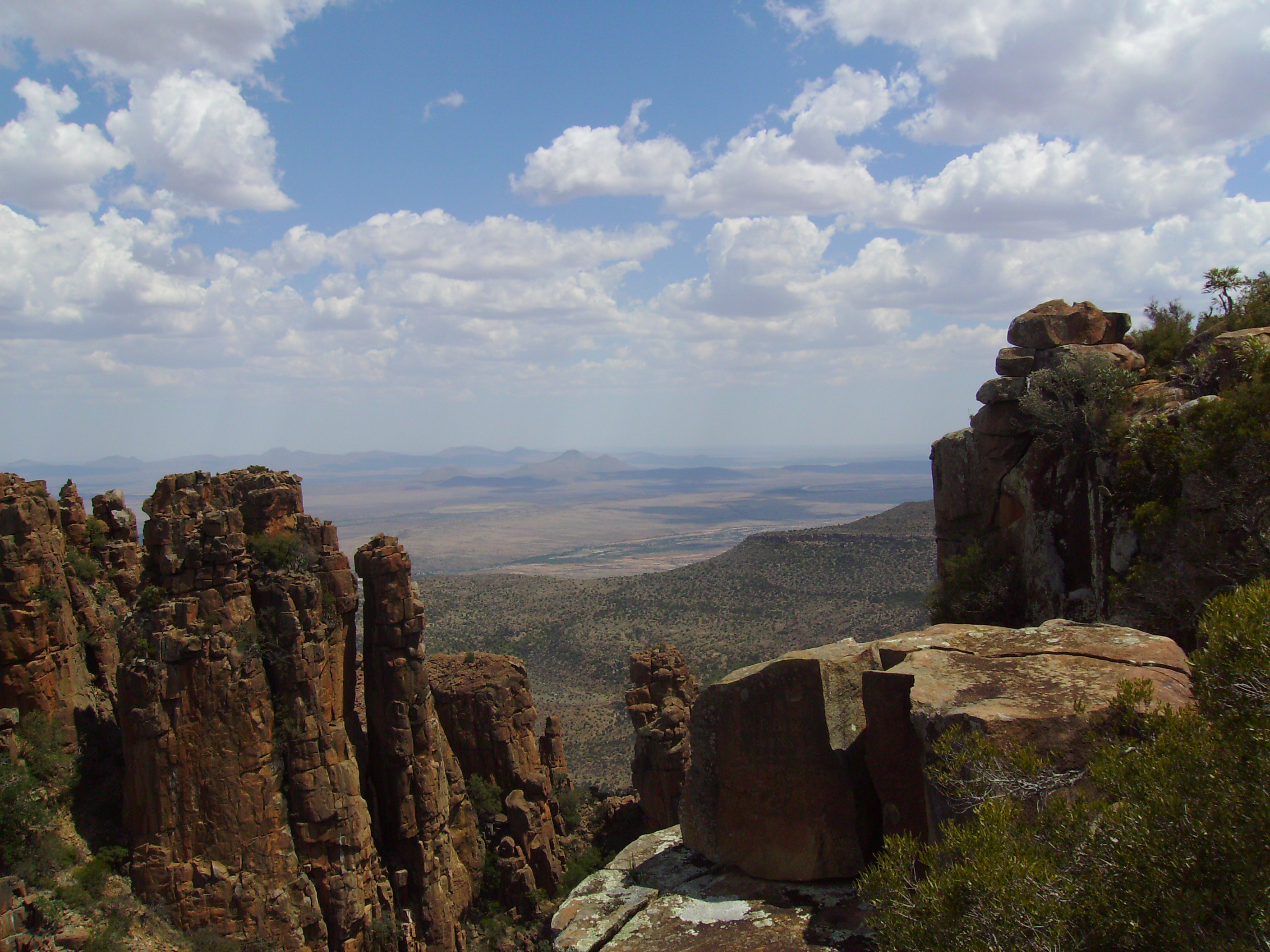 Valley of Desolation, Graaff-Reinet District This media shows a South African Protected Site with SAHRA file reference 9/2/033/0024.